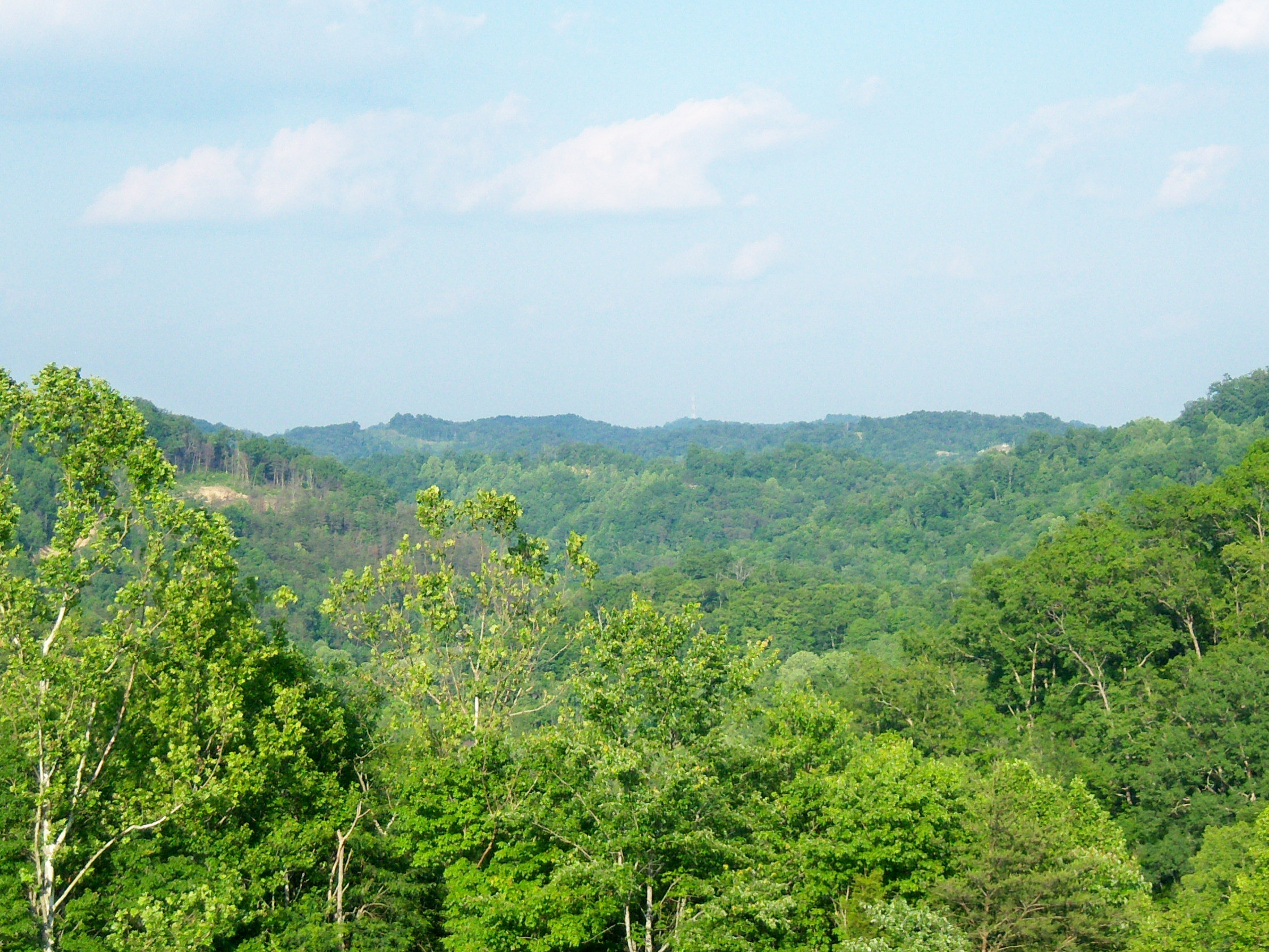 Mountain top view of Tutor Key, Kentucky.